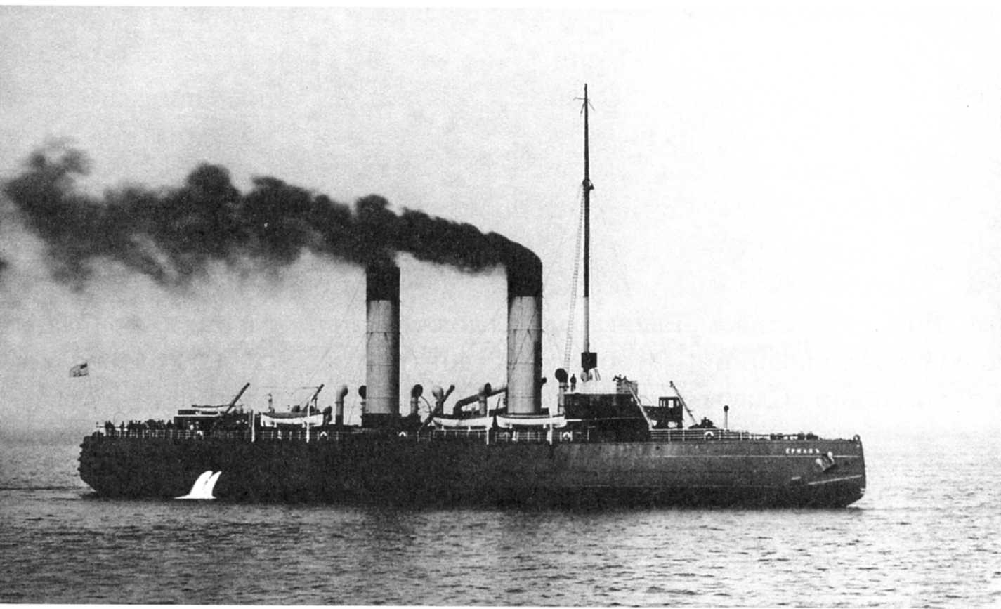 Icebreaker Yermak.